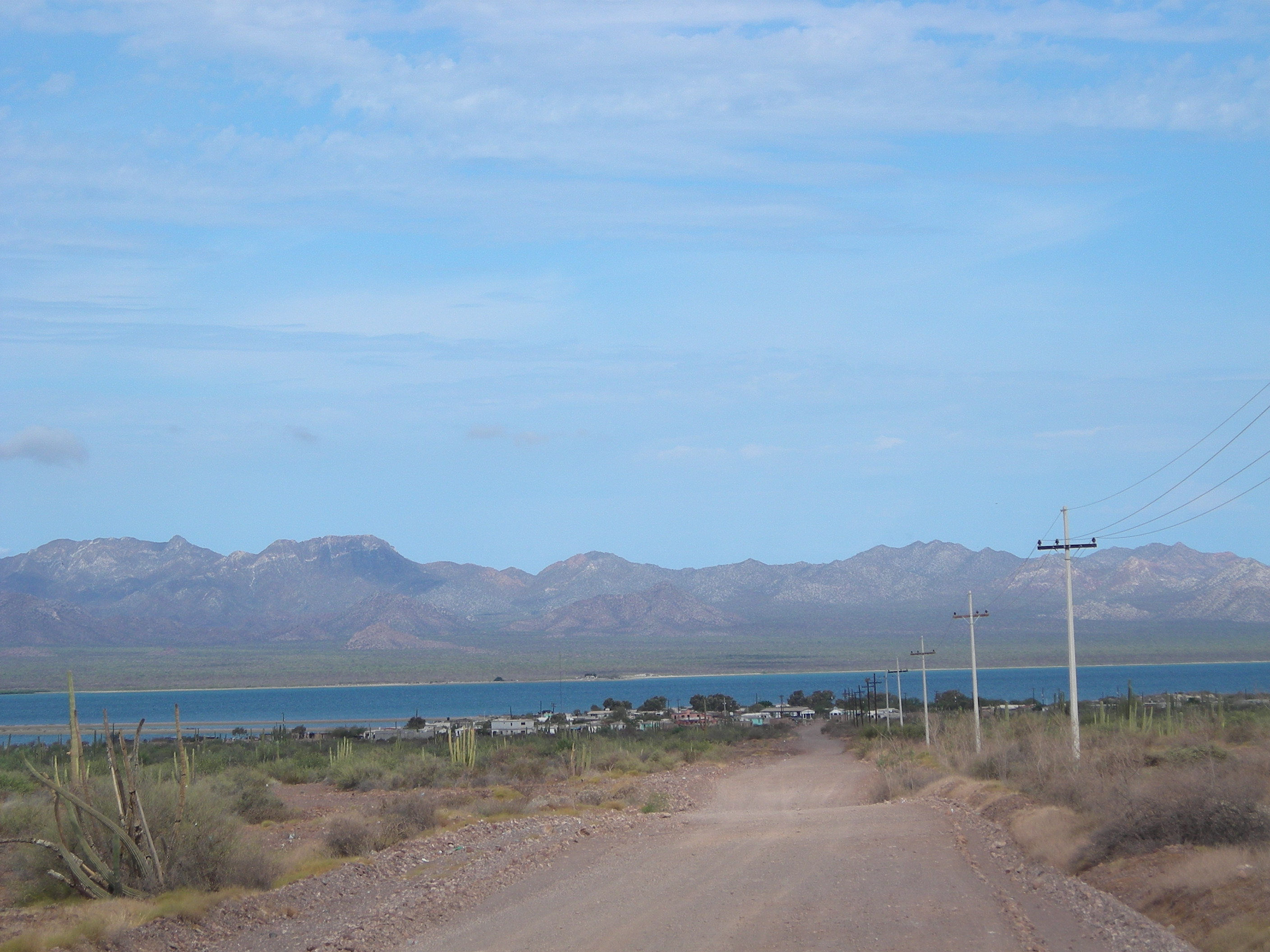 view of Punta Chueca, Sonora, Socaaix Mexico